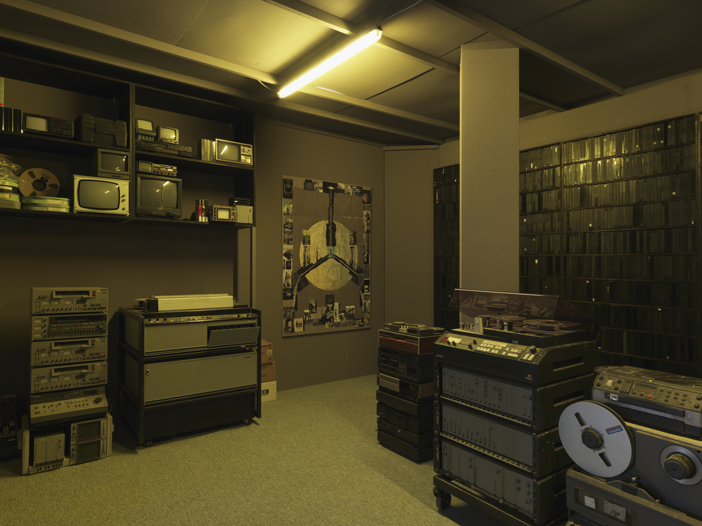 Video Palace 38 - Maniac, mixed media, 300 x 500 x 600 cm